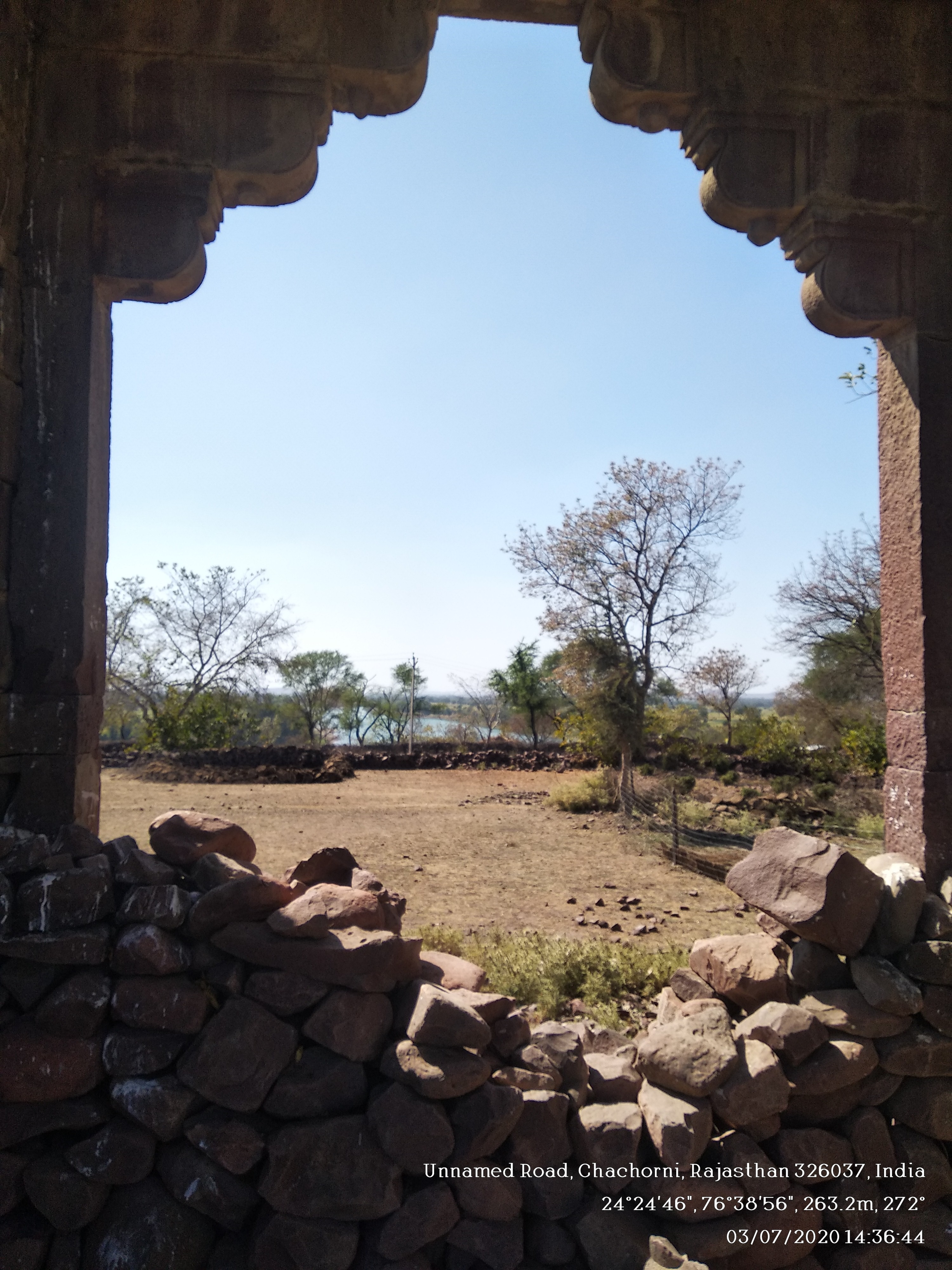 Fort at Parvan and Nevaj River Confluence